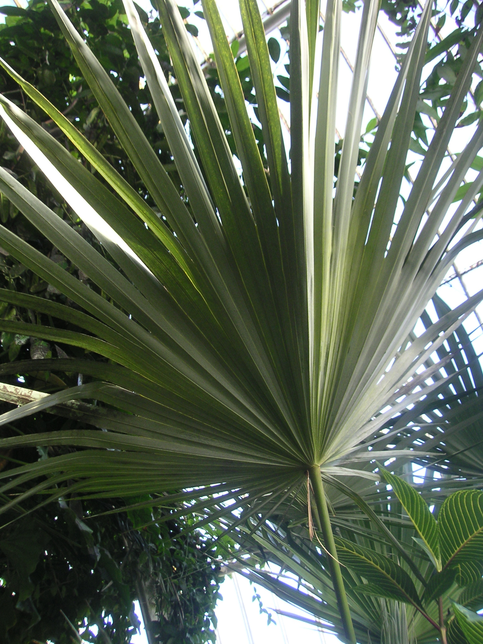 Thrinax morrisii, leaf, at Kew Gardens, London, UK